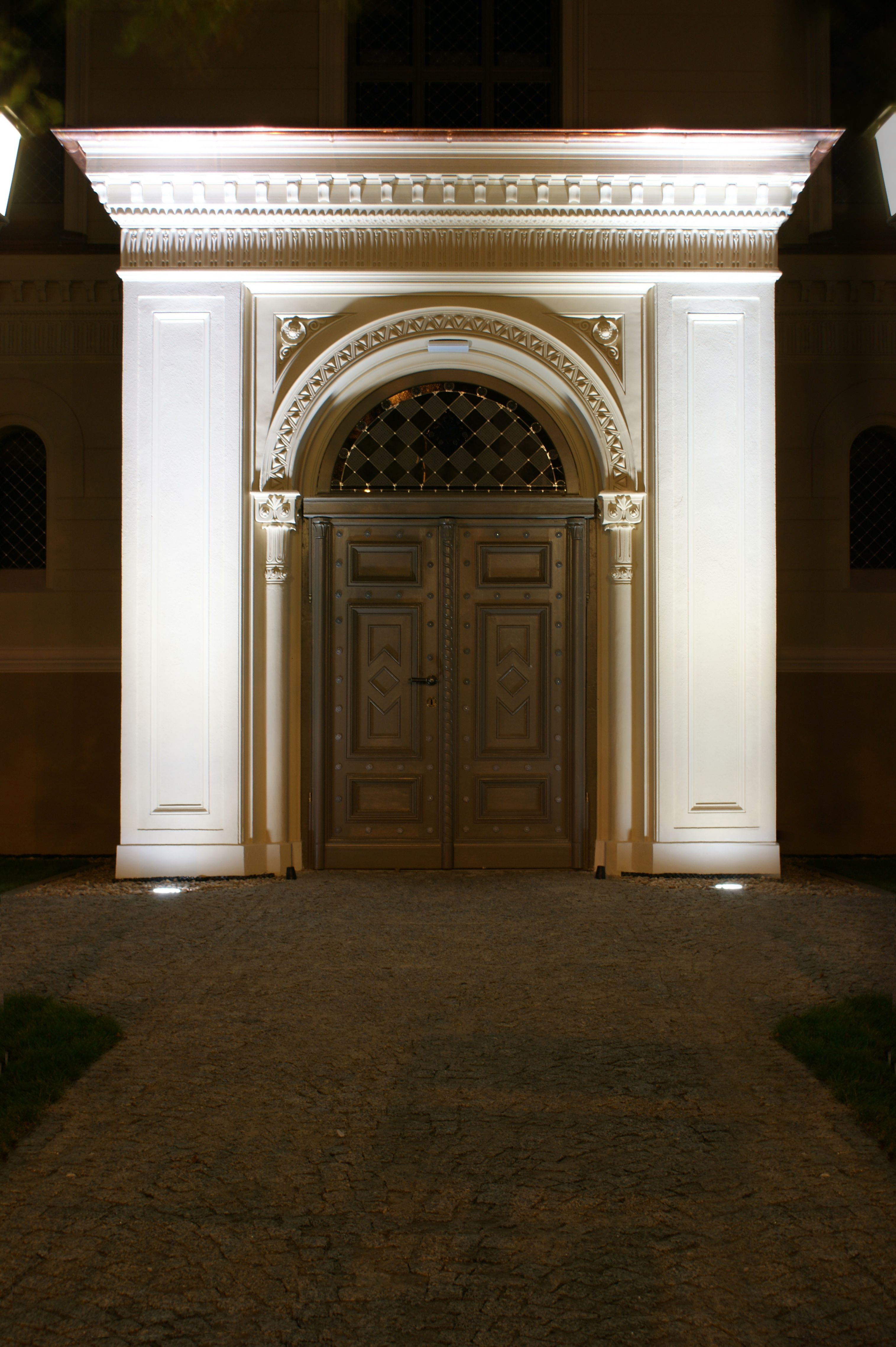 The main portal of Ostrow synagogue - illuminated